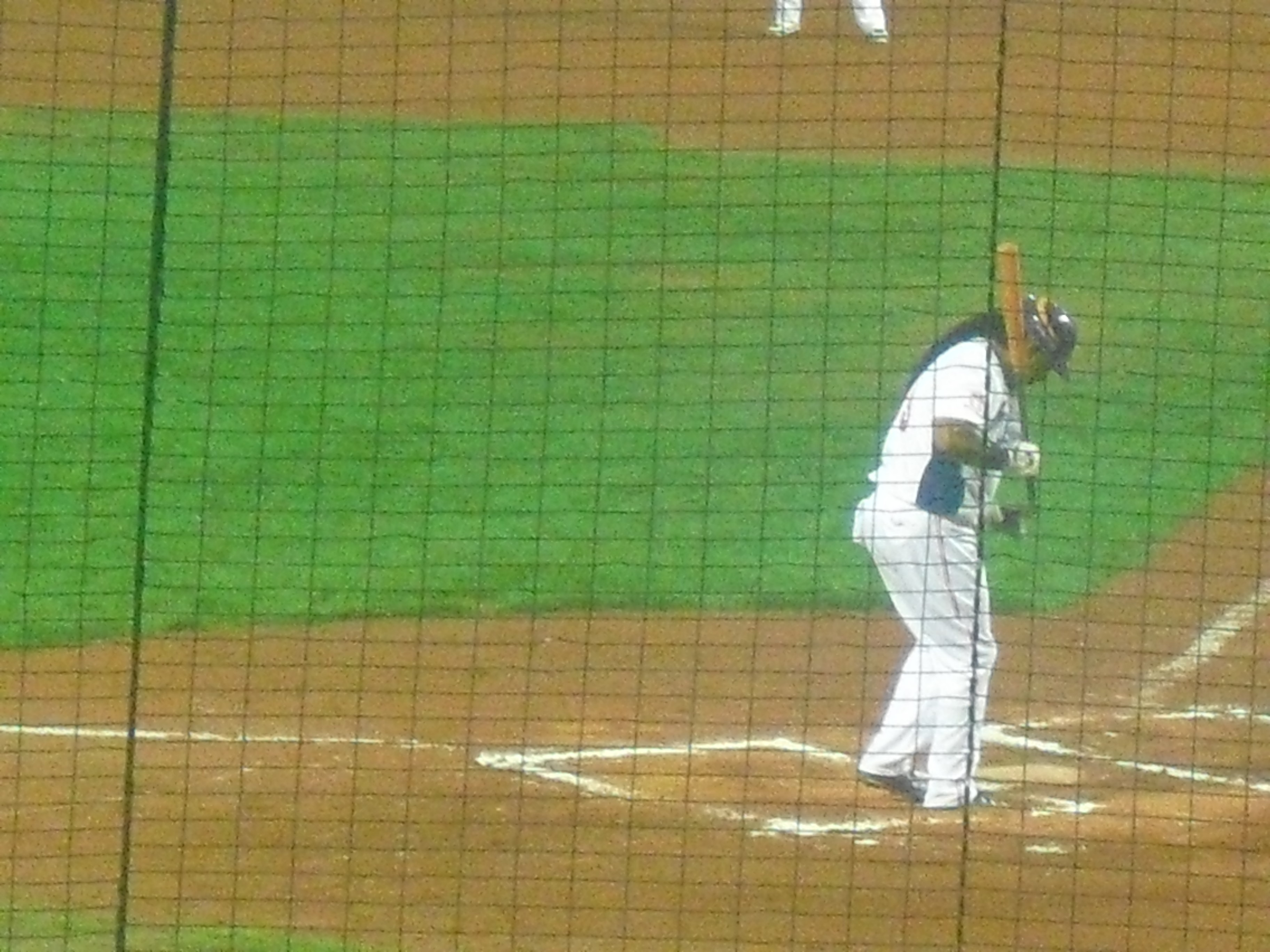 Manny Ramírez at a baseball game of Taichung of Taiwan in April 13, 2013.